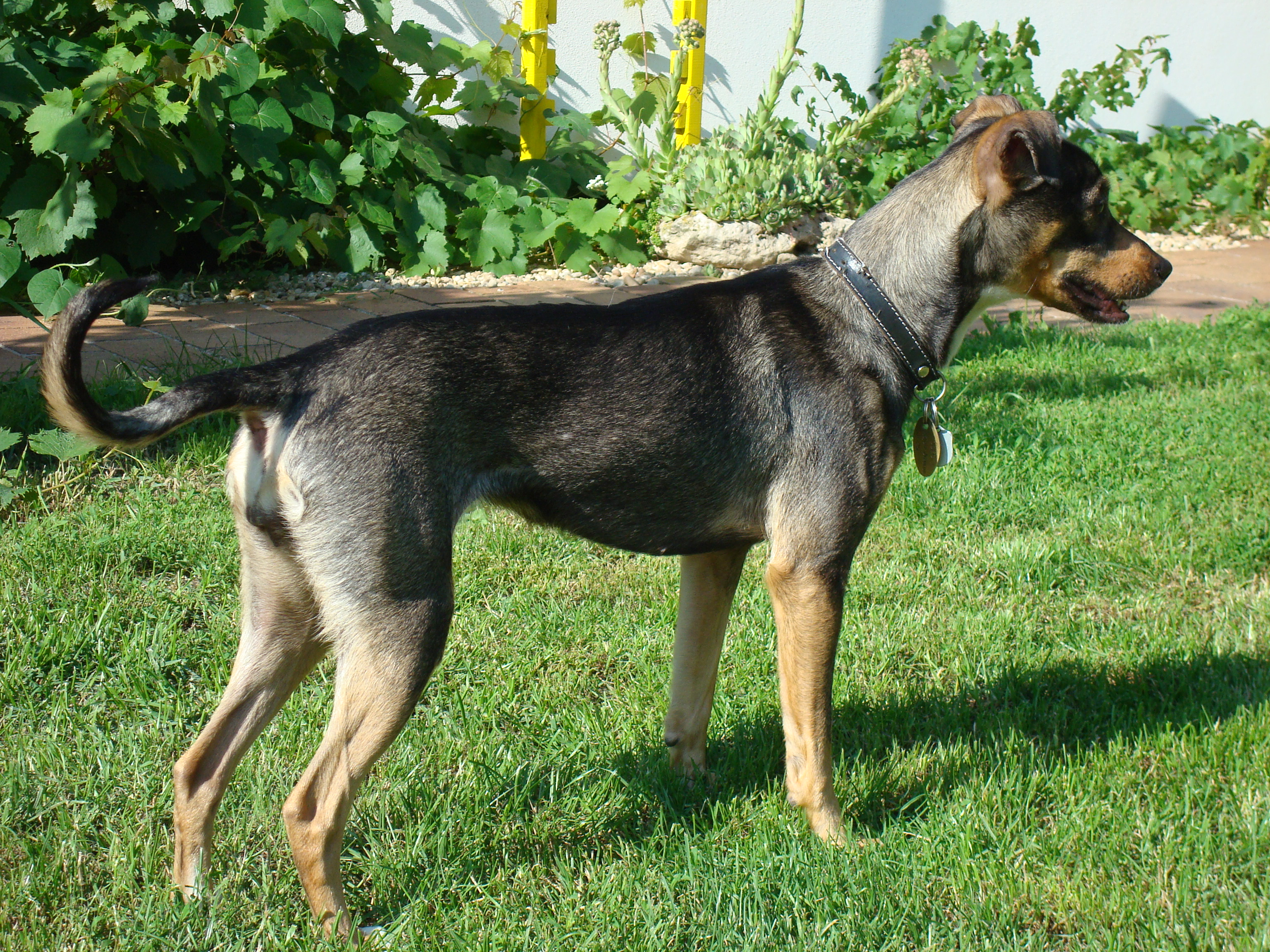 Peruvian Hairless Dog - Coated variant - Medium size